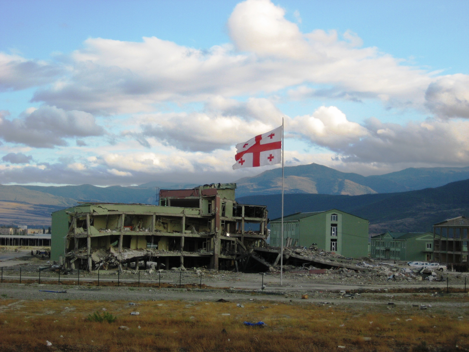 Russian attack in August resulted in the destruction of Gori military bases, only few building survived